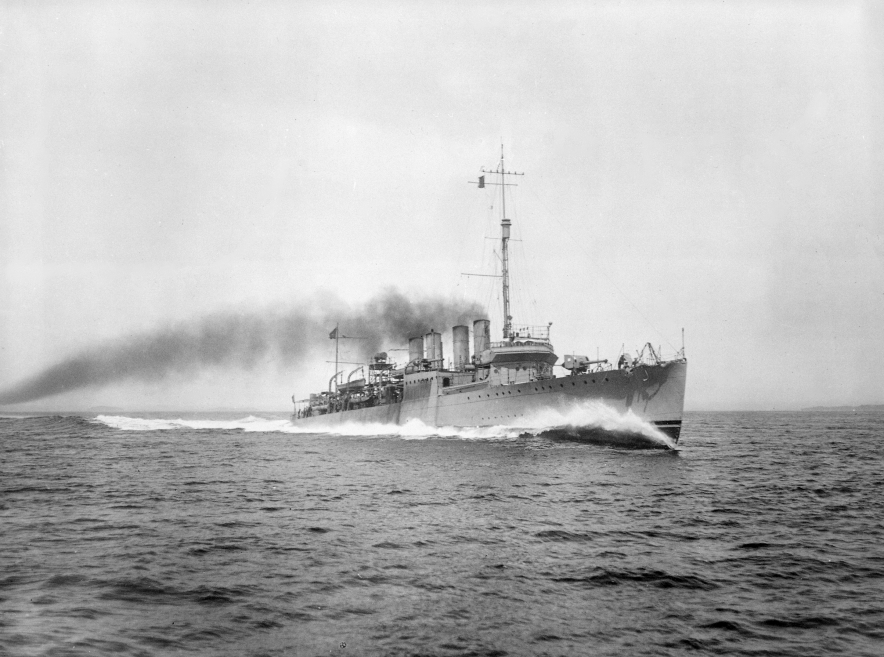 The U.S. Navy Clemson-class destroyer USS Brooks (DD-232) underway during trials on 27 May 1920. Brooks was commissioned on 18 June 1920.